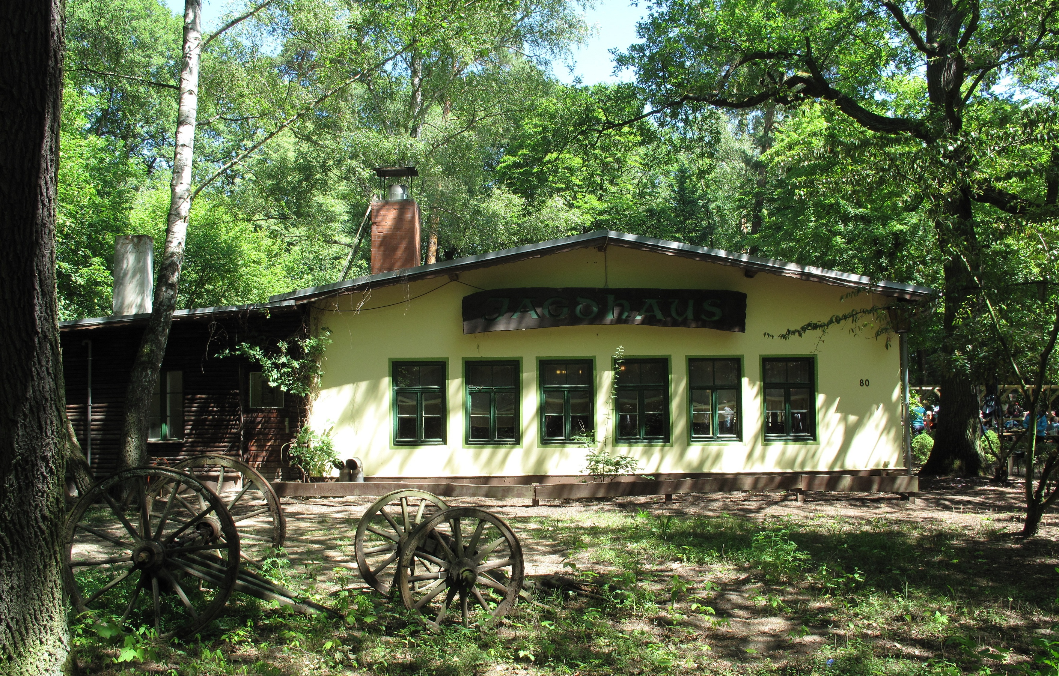 Inn „Jagdhaus (german for: hunting lodge) an der Bürgerablage“. The „Bürgerablage“ is a beach of the river Havel in Berlin, Borough Spandau, locality Hakenfelde.